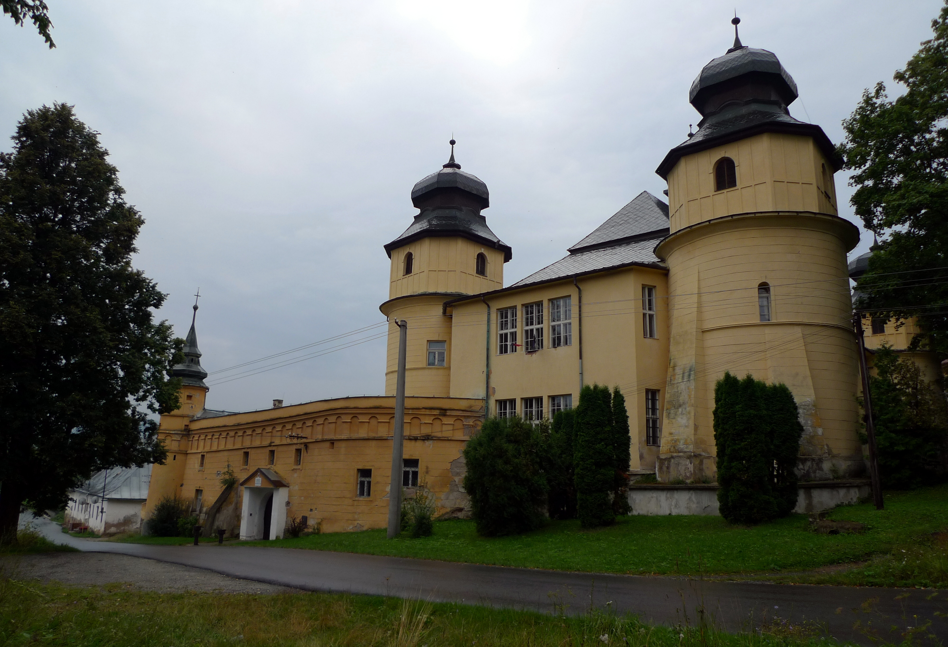 Castle Spišský Štiavnik in Kaštiel, Slovakia Česky: Zámek Spišský Štiavnik v osadě Kaštiel na Slovensku - od silnice